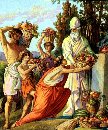 Thank offering unto the Lord, offering of first fruits, as in Deuteronomy 26:1-11, illustration from a Bible card published by the Providence Lithograph Company between 1896 and 1913